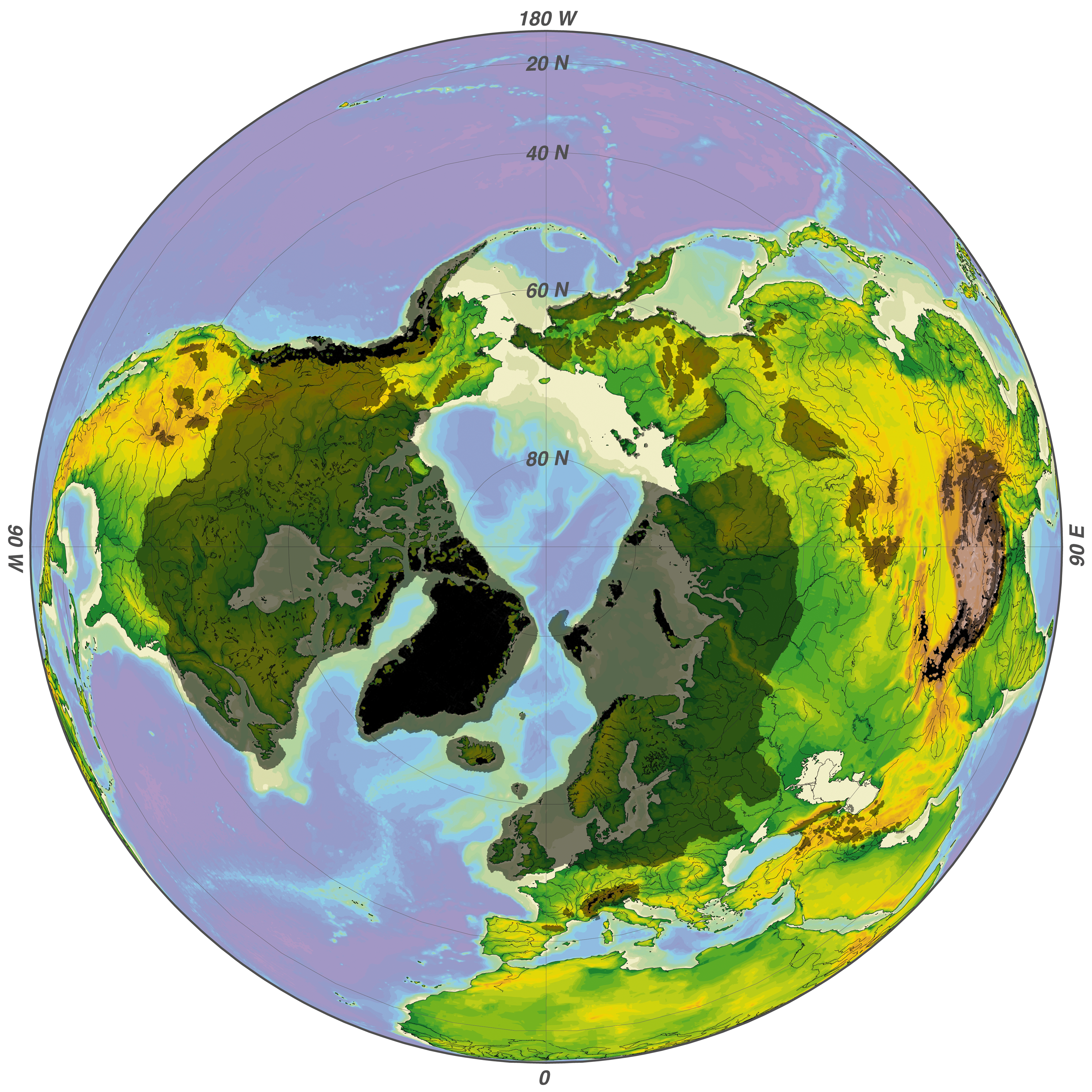 Recent (black) and maximum (grey) glaciation of the northern hemisphere during the Quaternary climatic cycles Ice coverage: J. Ehlers & P.L. Gibbard: The extent and chronology of Cenozoic global glaciation. Quaternary International, 164-165, 6-20, 2007 Topography: U.S. Department of Commerce, National Oceanic and Atmospheric Administration, National Geophysical Data Center (NOAA/NGDC), 2-minute Gridded Global Relief Data (ETOPO2) 2006 Map software: Schlitzer, R., Ocean Data View, 2007